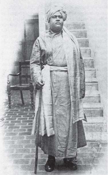 Swami Brahmananda, the first President of the Ramakrishna Order, visited Madras in 1908.